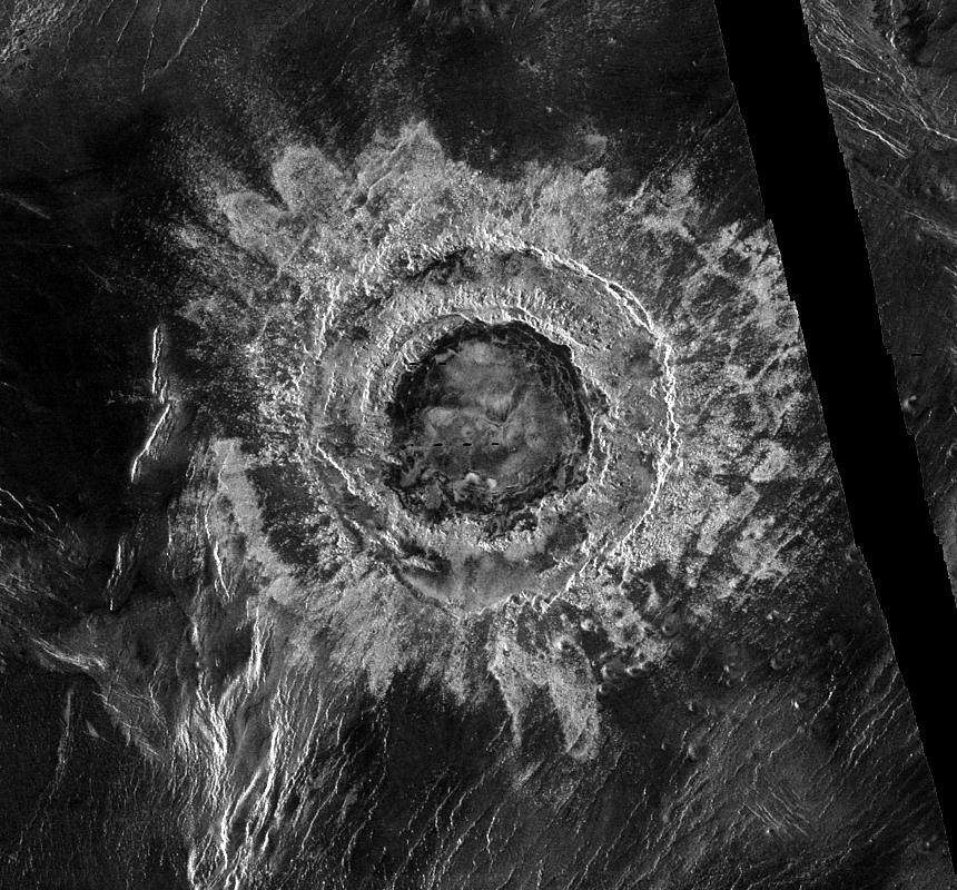 Meitner crater on Venus. Magellan image F-MIDR55S319.9;201. Location: 55.6°S, 321.6° Diameter: 150 kilometers. The black band indicates a region for which radar data wasn't available.